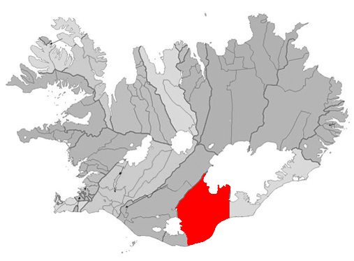 Based on Municipalities of Iceland.png.